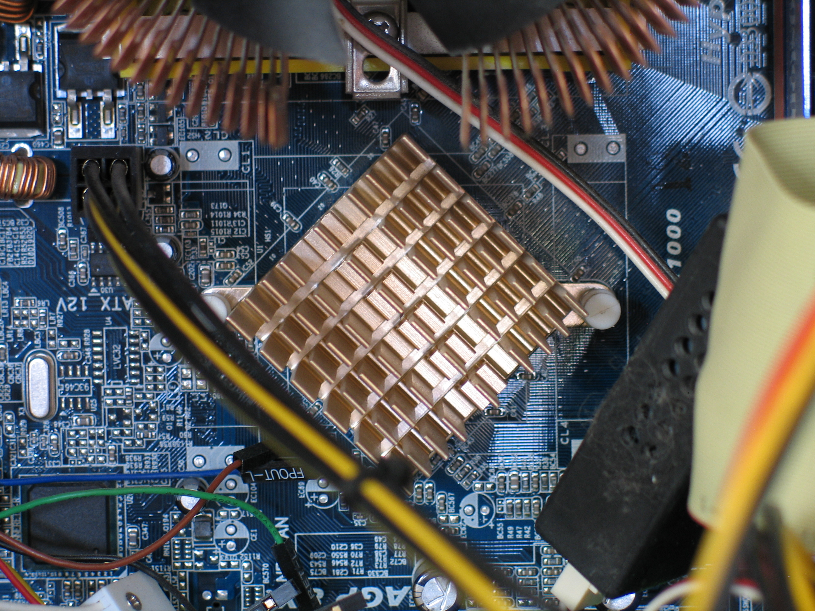 This northbridge chipset is passively cooled to produce essentially no sound.